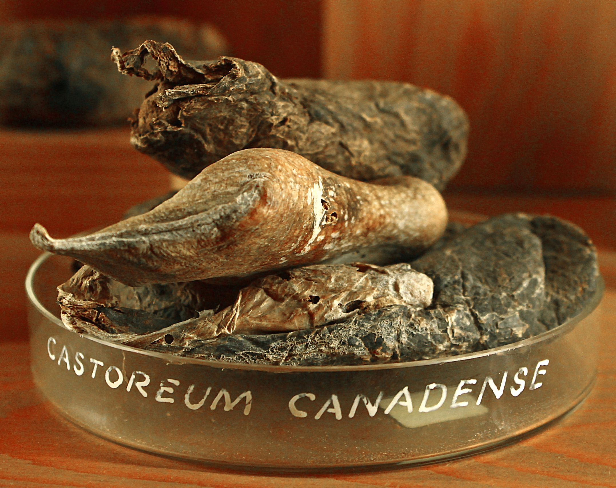 Castoreum; Deutsches Apothekenmuseum, Heidelberg Castle, Heidelberg, Germany.